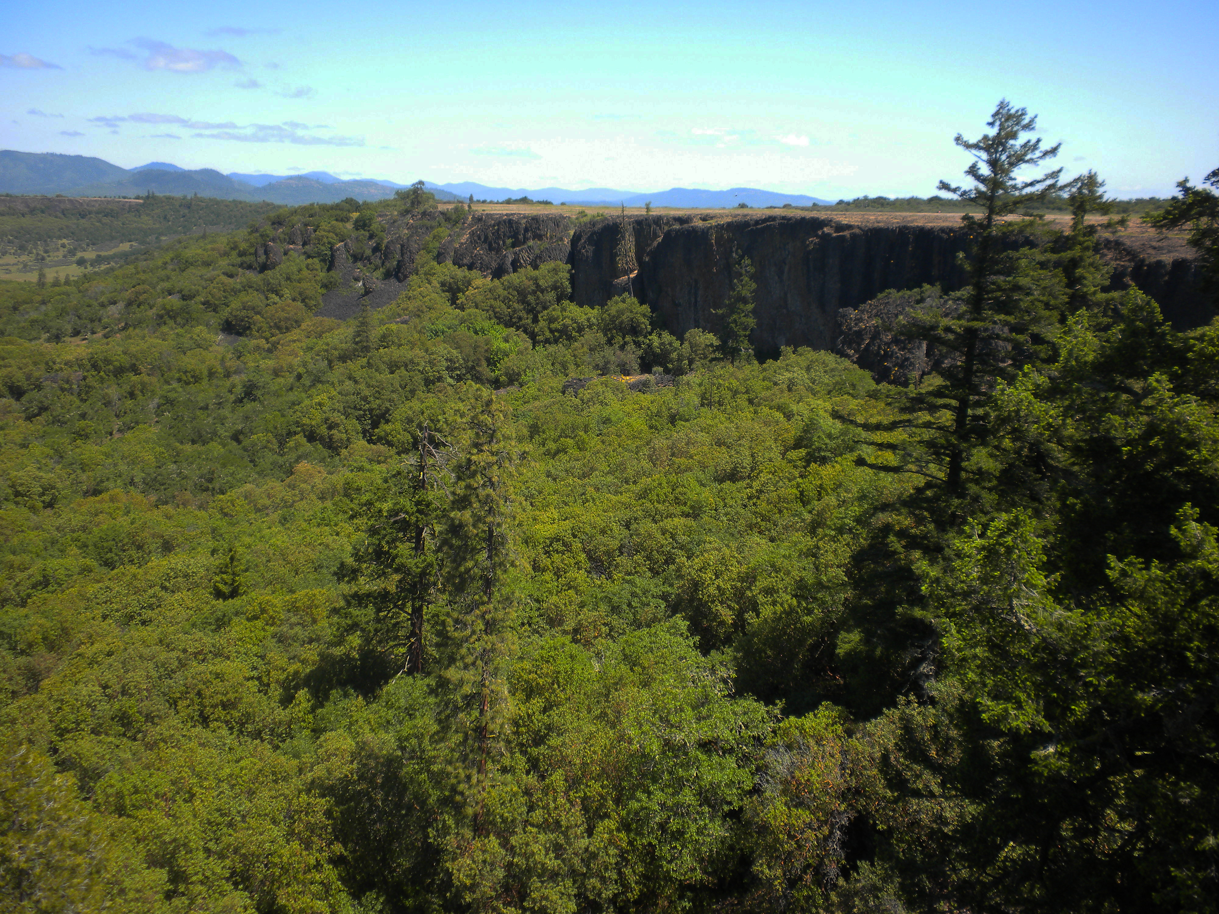 Upper and Lower Table Rocks are two of the most prominent topographic features in the Rogue River Valley. These flat-topped buttes rise approximately 800 feet above the north bank of the Rogue River in southwestern Oregon. Upper and Lower refer to their positions relative to each other along the Rogue River; Lower Table Rock is located downstream, or lower on the river, from Upper Table Rock. The Table Rocks were designated in 1984 as an Area of Critical Environmental Concern (ACEC) to protect special plants and animal species, unique geologic and scenic values, and education opportunities. The remarkable diversity of the Table Rocks includes a spectacular spring wildflower display of over 75 species, including the dwarf wooly meadowfoam (Limnanthes floccosa ssp. pumila), which grows nowhere else on Earth but on the top of the Table Rocks. Vernal pool fairy shrimp (Branchinecta lynchi), federally listed as threatened, inhabit the seasonally formed vernal pools found on the tops of both rocks. The 4,864-acre Table Rocks Management Area is cooperatively owned and administered by the Medford District Bureau of Land Management (2,105 acres) and The Nature Conservancy (2,759 acres). Memorandums of Understanding signed in 2011 and 2012 with the Confederated Tribes of the Grand Ronde and the Cow Creek Band of Umpqua Tribe of Indians allow for coordinating resources to protect the Table Rocks for present and future generations. A cooperative management plan for the area was completed in 2013. If you've never been, start planning your trip right here